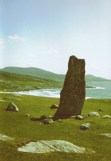 Clach Mhicleoid Standing Stone. On Aird Niosaboist.